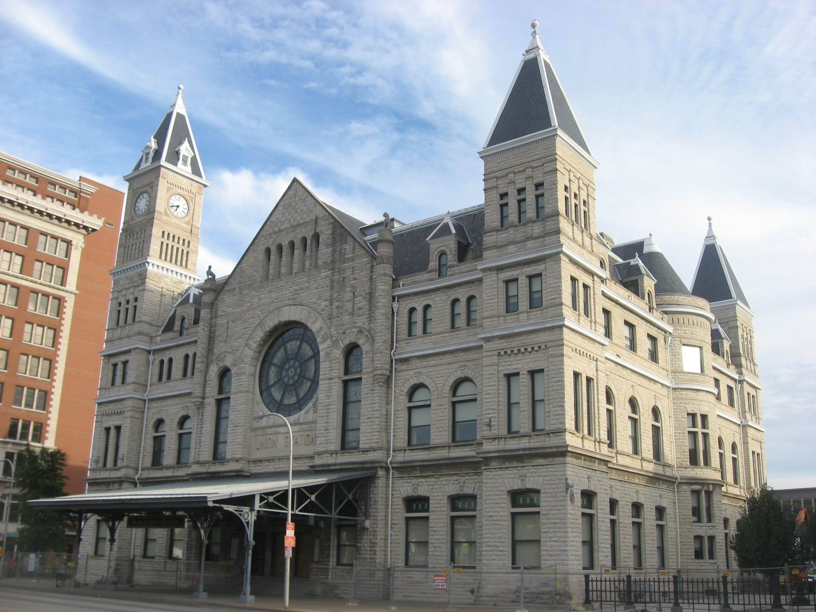 Front and western side of Union Station, located at 1400 W. Broadway (U.S. Routes 60/150) in the West End of Louisville, Kentucky, United States. Built in 1880, it is listed on the National Register of Historic Places.